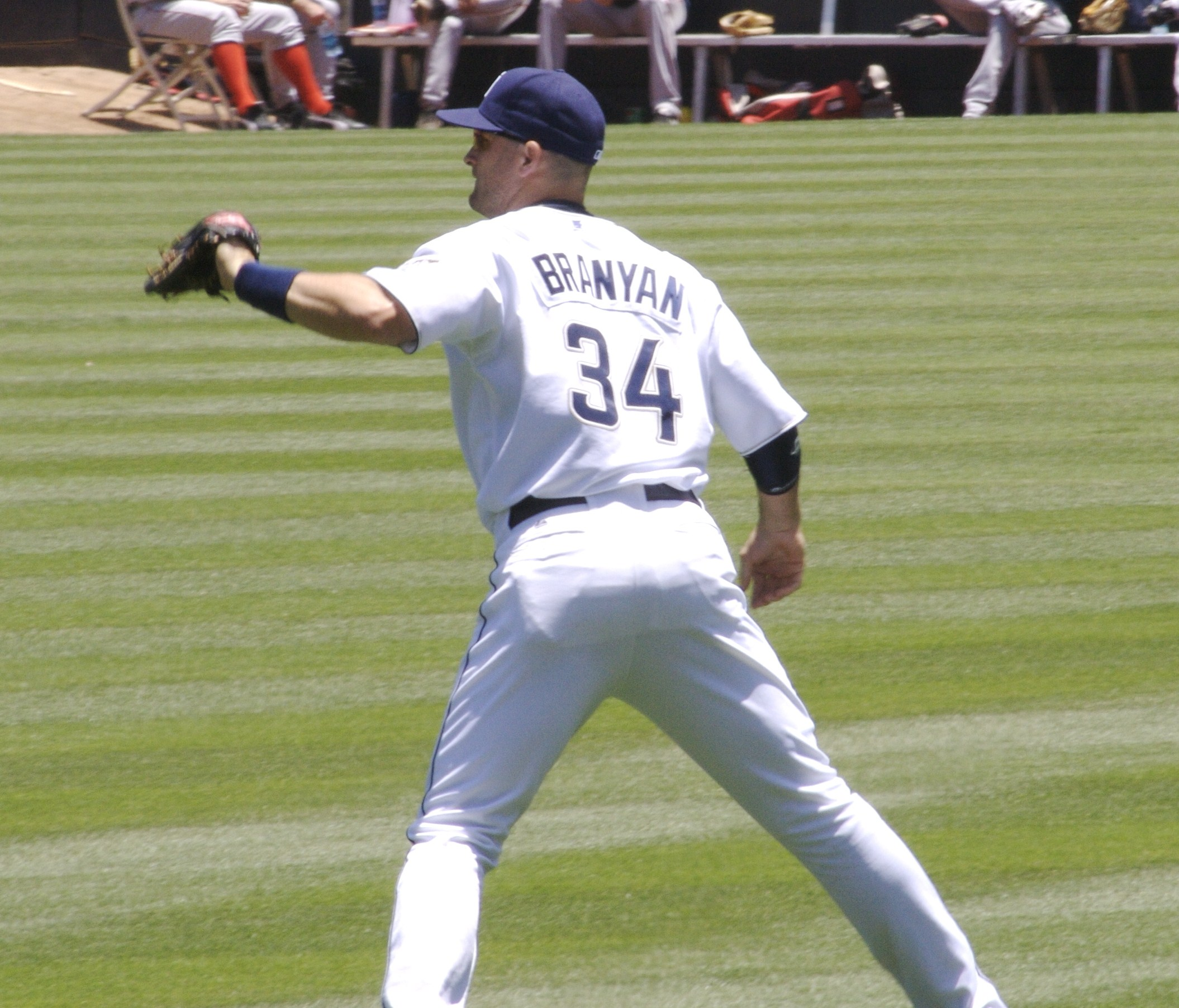 Russell Branyan in 2007.